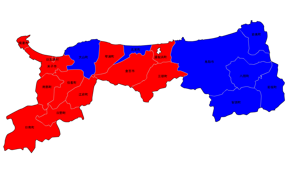 Municipal government's ordinance designed banks of cities, towns and villages in Tottori prefecture, Japan. Blue:The Tottori Bank,Ltd., Red:The San-In Godo Bank,Ltd.